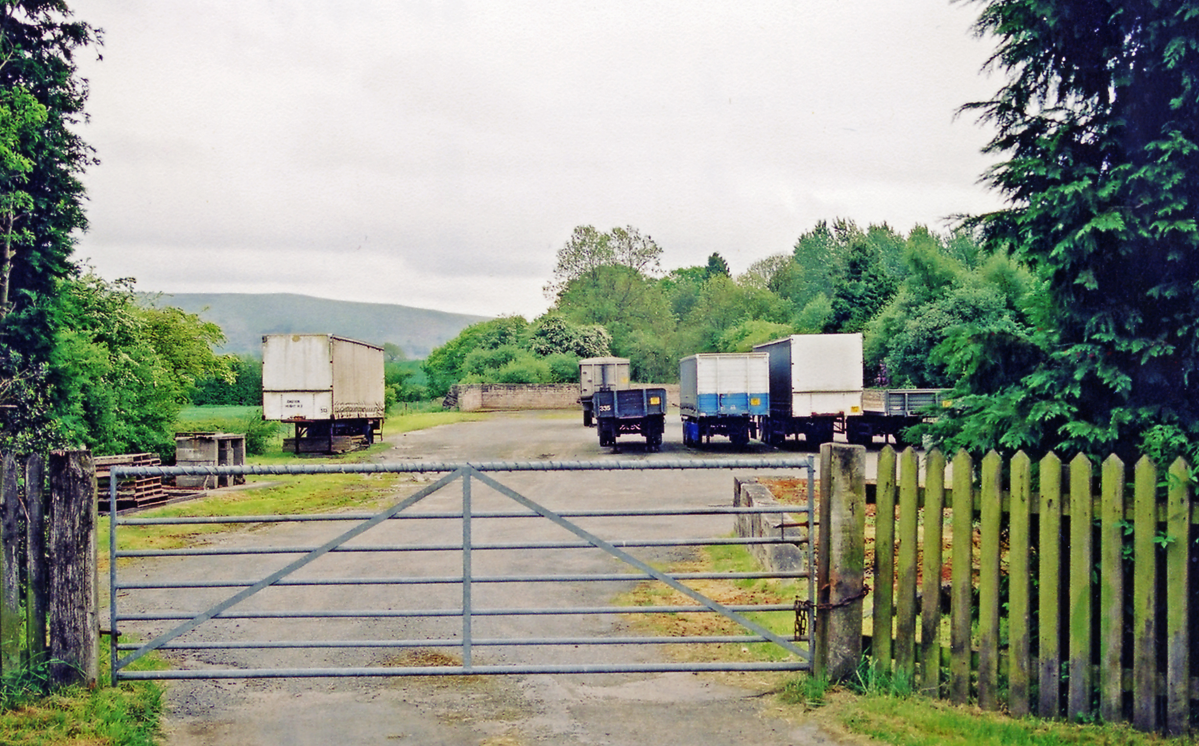 Site of former Lydham Heath station. View SE from B4383 road, towards buffer-stops of the intermediate 'terminus' of the Bishop's Castle Railway at Lydham Heath. The whole line, Craven Arms (to right) to Bishop's Castle (to left), belonging to an independent Company, had been closed since 20/4/35.